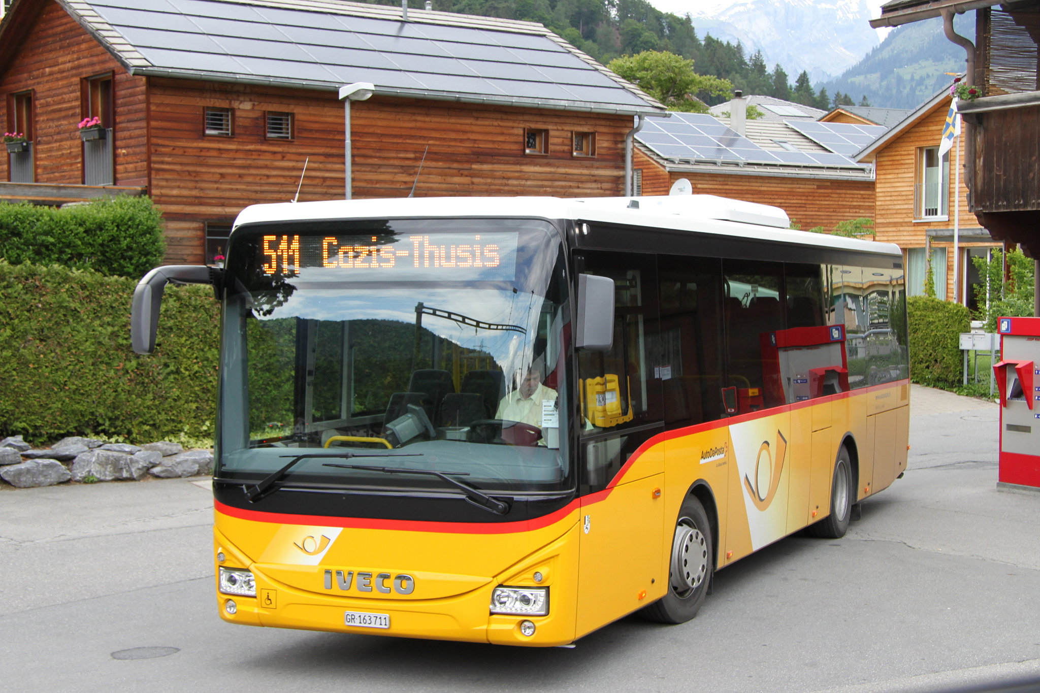 Iveco Crossway LE 10.9 postal bus (registration plate GR 163711) of PU Mark at Rhäzüns train station.